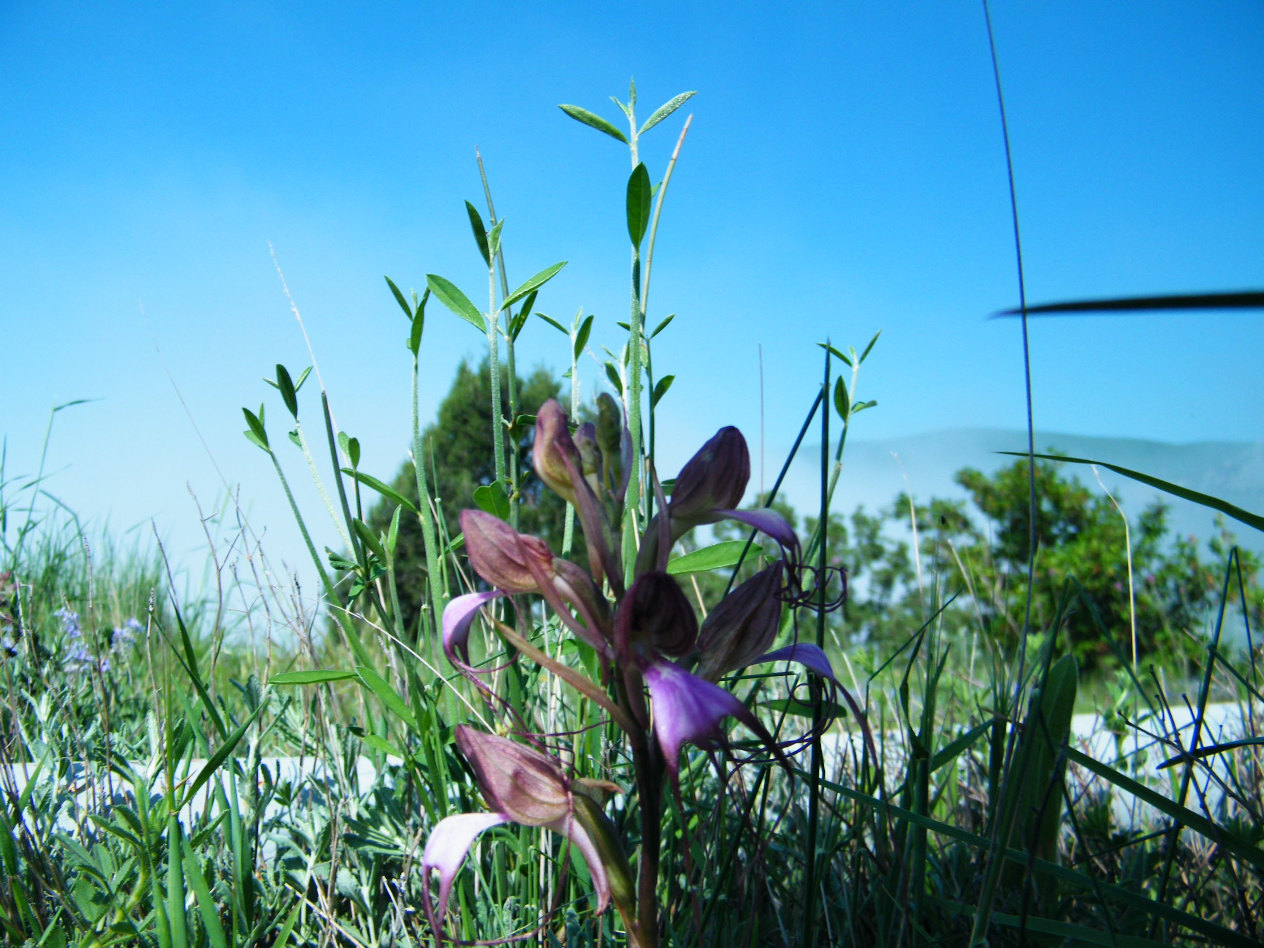 Comperia comperiana in Laspi Bay